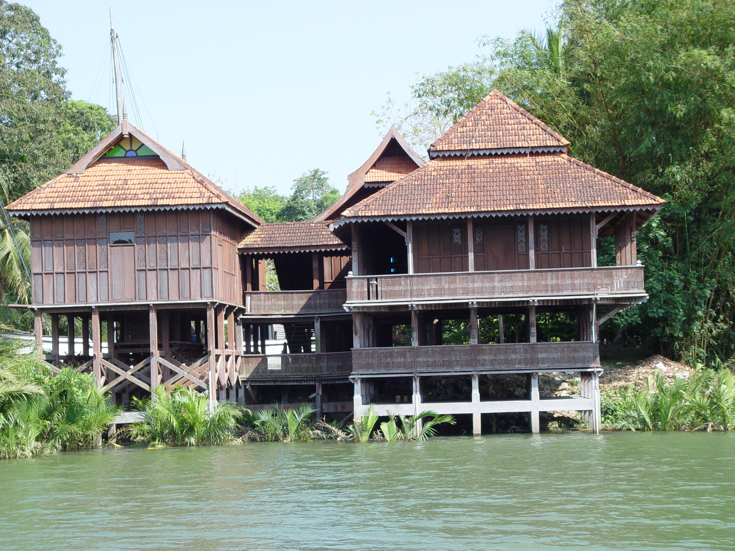 Museum of Kuala Terengganu: A traditional house built of Chengal